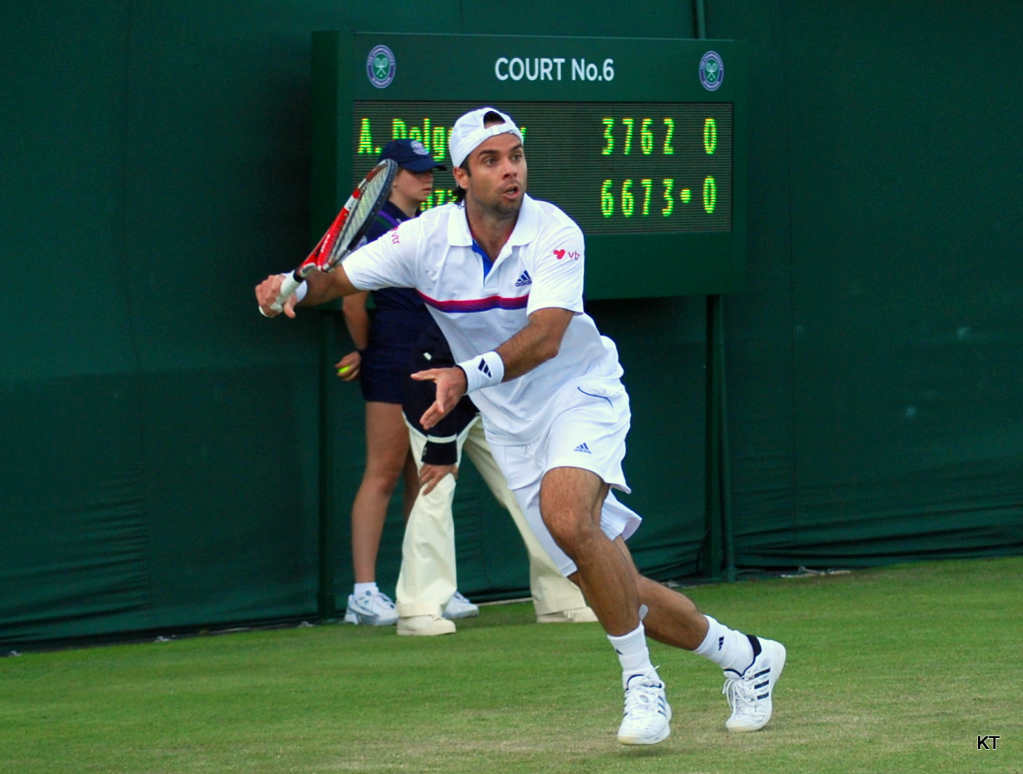 Fernando Gonzalez during his first round match with Alexandr Dolgopolov. Gonzalez won 6-3, 6-7, 7-6, 6-4. Day 2 of Wimbledon 2011.